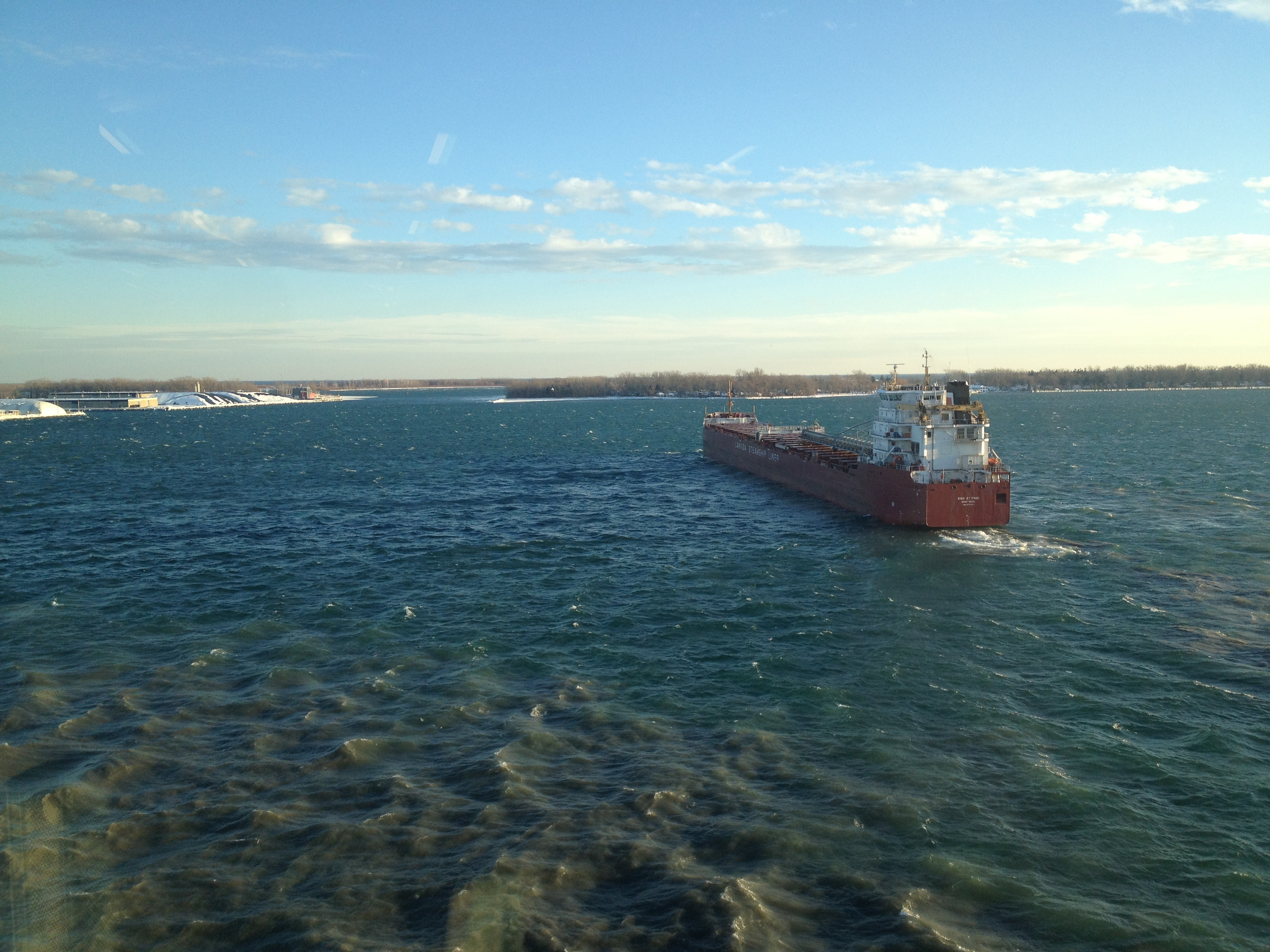 Canada Steamship Lines Baie St. Paul on Lake Ontario, as viewed from Corus Quay.